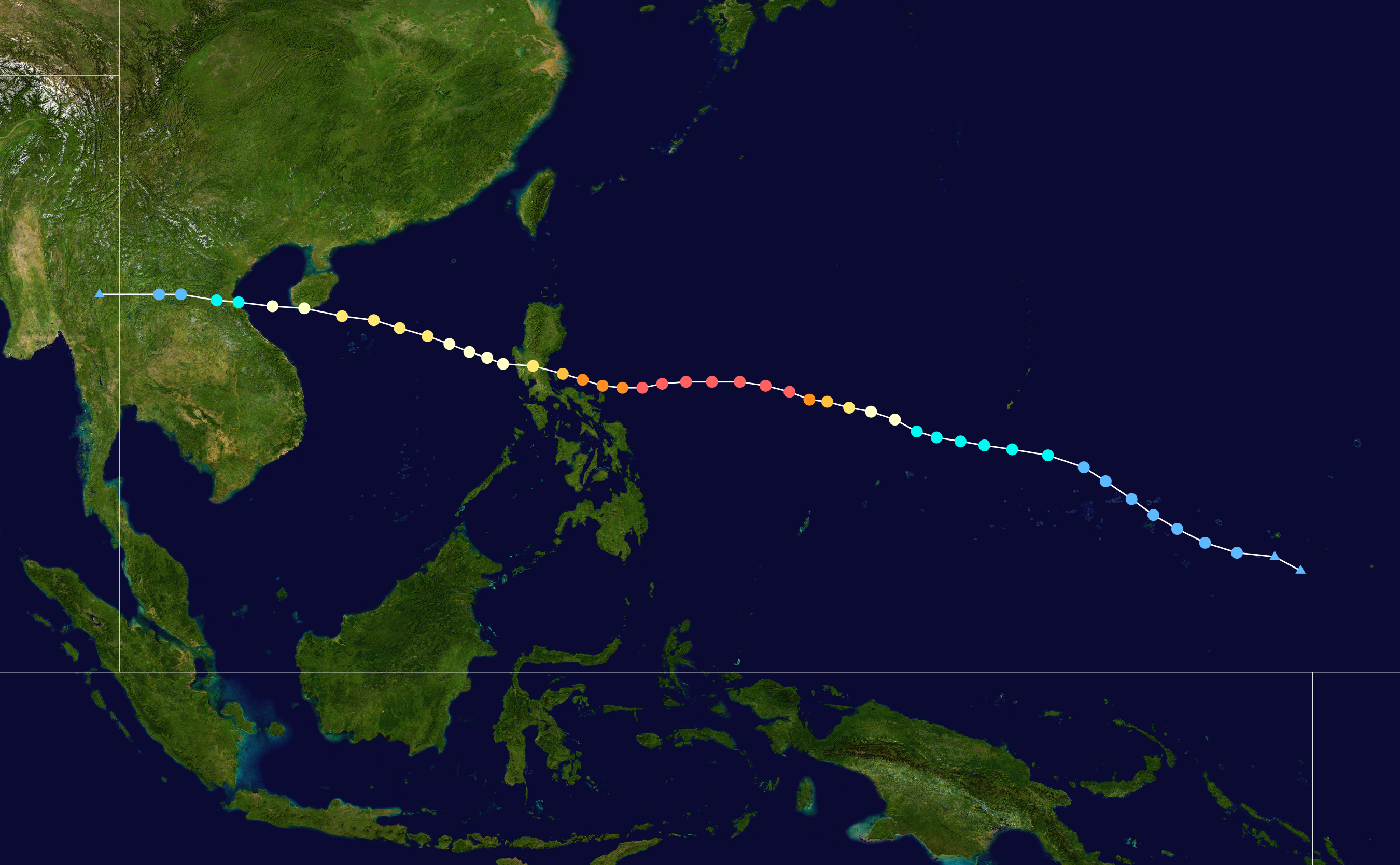 Typhoon Dot (1985) track. Uses the color scheme from the Saffir-Simpson Hurricane Scale.